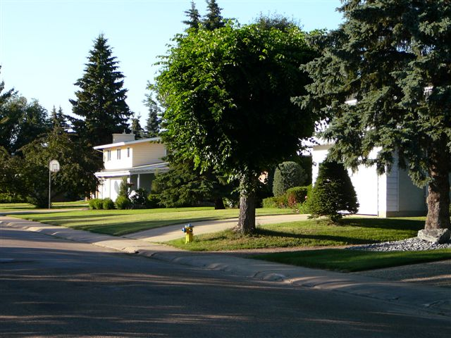 Laurier Heights residential street. July 4, 2007